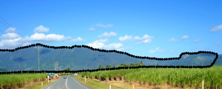 This is my photo, taken May 2007, marked myself using photo-editing software, visualising a feature referred to in the publicly accessible Australian Federal Court Native Title determinaton for Djabugay peoples